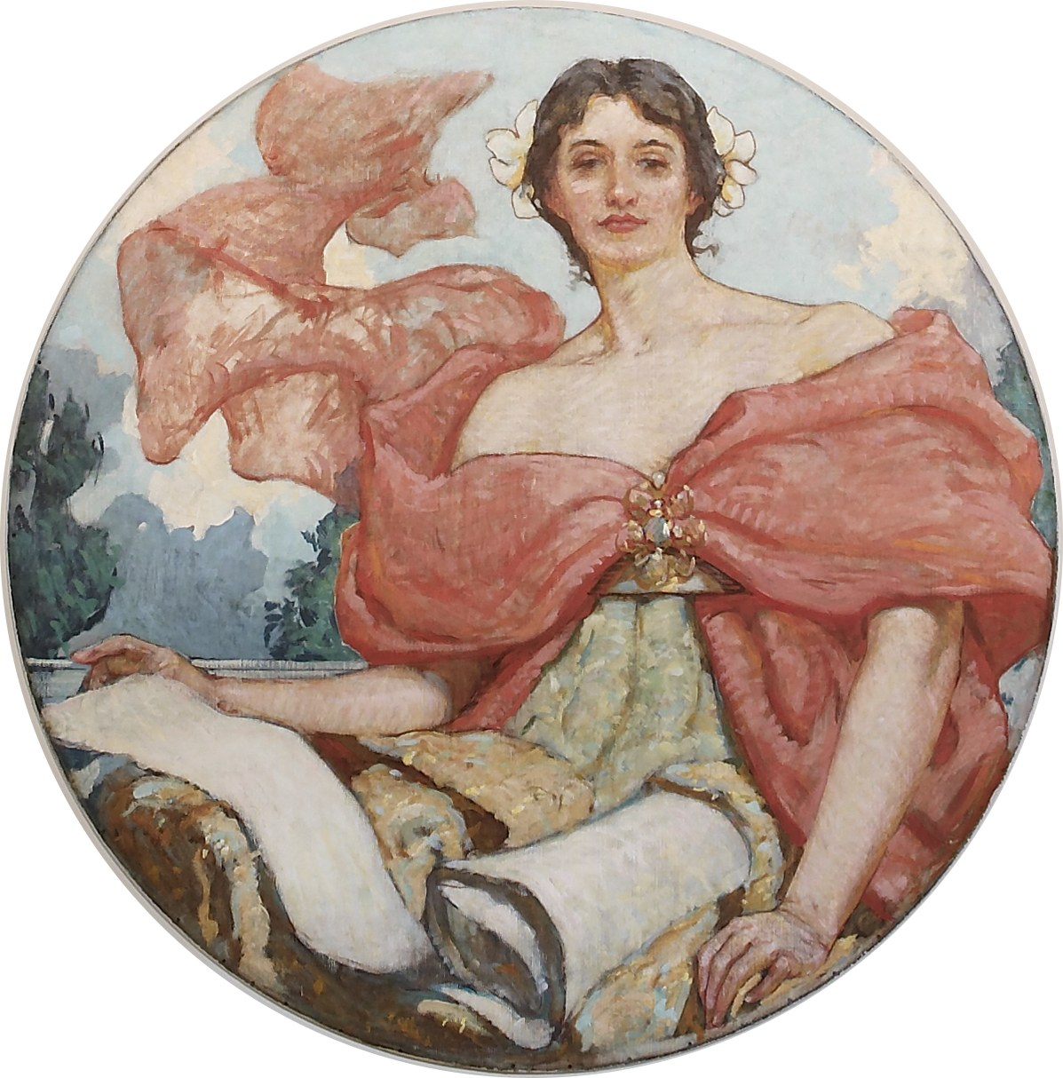 Understanding, mural by Robert Lewis Reid. Second Floor, North Corridor. Library of Congress Thomas Jefferson Building, Washington, D.C. Caption underneath reads: WISDOM IS THE PRINCIPAL THING THEREFORE GET WISDOM AND WITH ALL THY GETTING GET VNDERSTANDING.